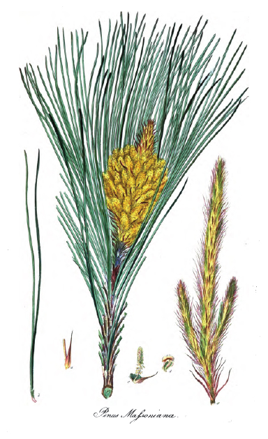 Pinus massoniana. Botanical illustration from: Description of the Genus Pinus, with directions relative to the cultivation, remarks on the uses of the several species and descriptions of many other new species of the Family of Coniferae illustrated with figures by Aylmer Bourke Lambert, Esq. London: Messrs. Weddell, MDCCCXXXII